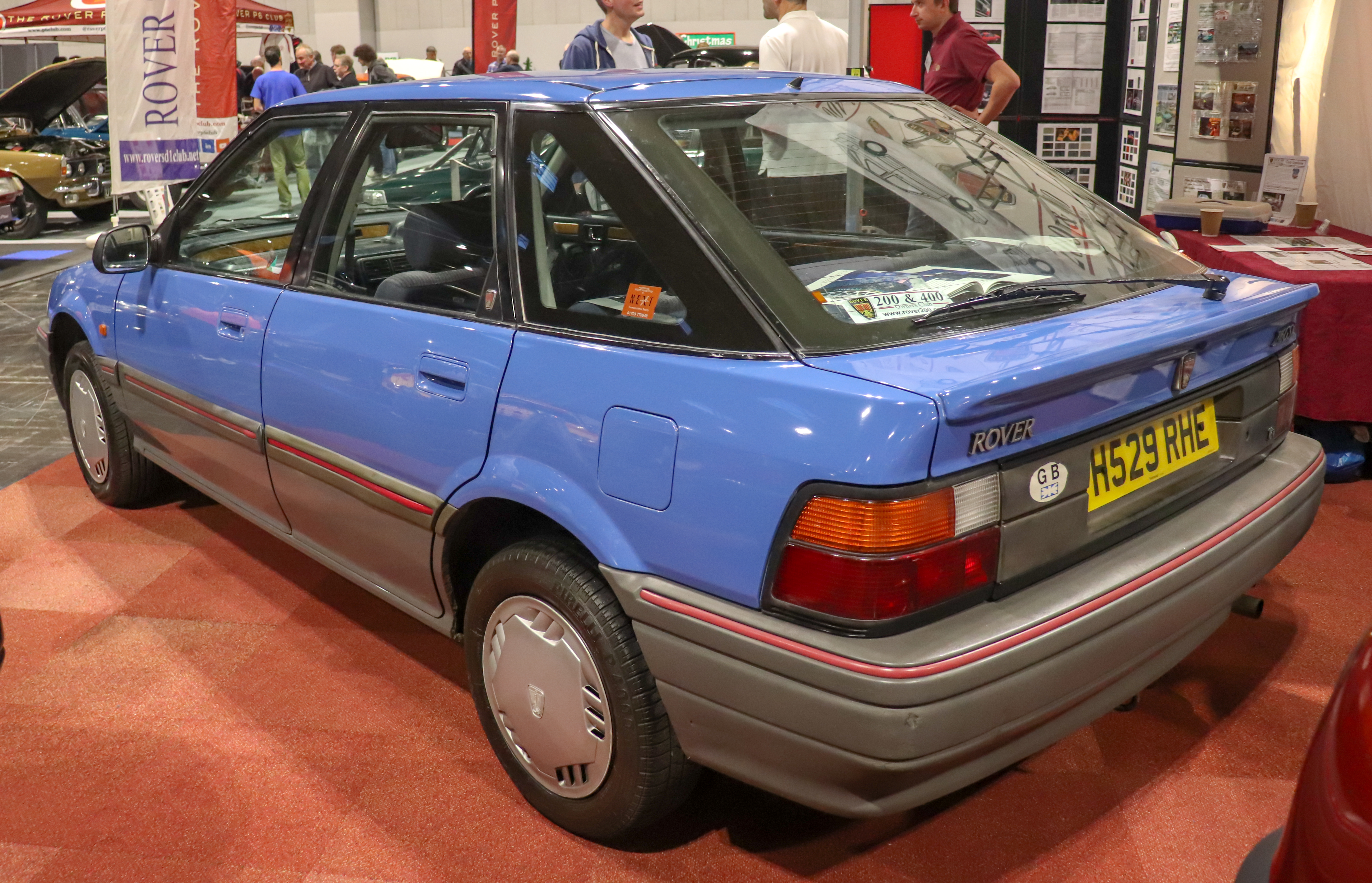 1990 Rover 216 GSi 1.6 Rear Taken at the NEC Classic Motor Show 2018